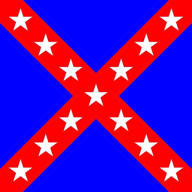 General Taylor's battle flag